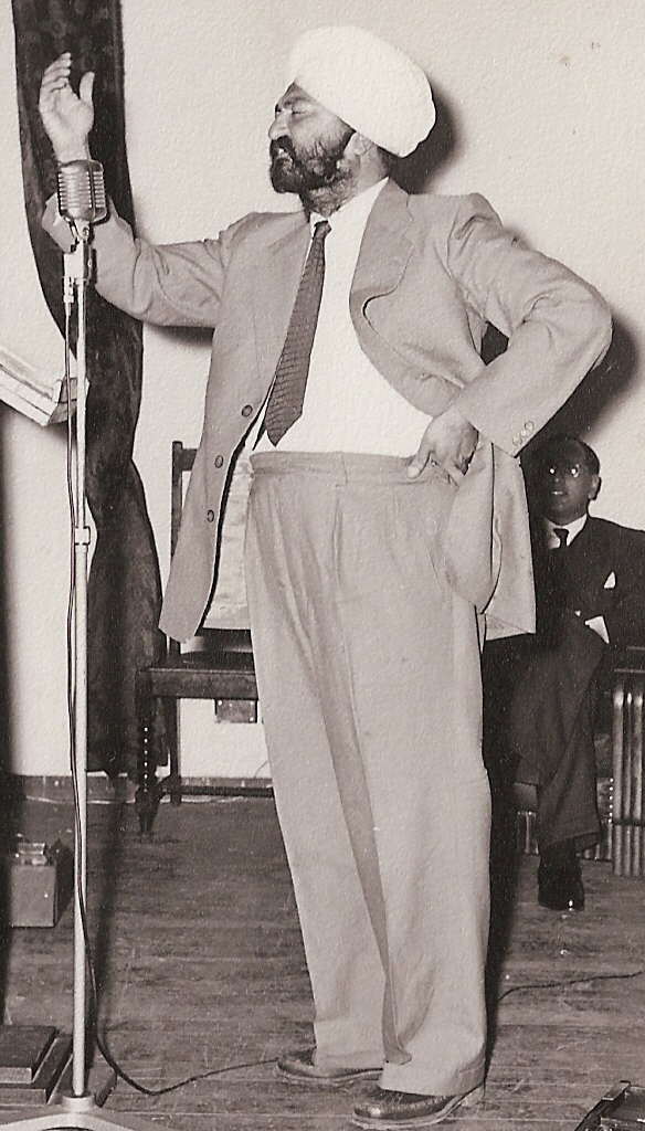 Punjabi poet Narinjan Singh 'Narinjan' in Kenya